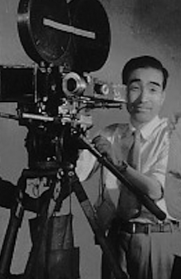 Cinematographer Mitsuo Miura (1902–56). From a studio still for the 1951 Shin-Tōhō motion picture Wakare Gumo.